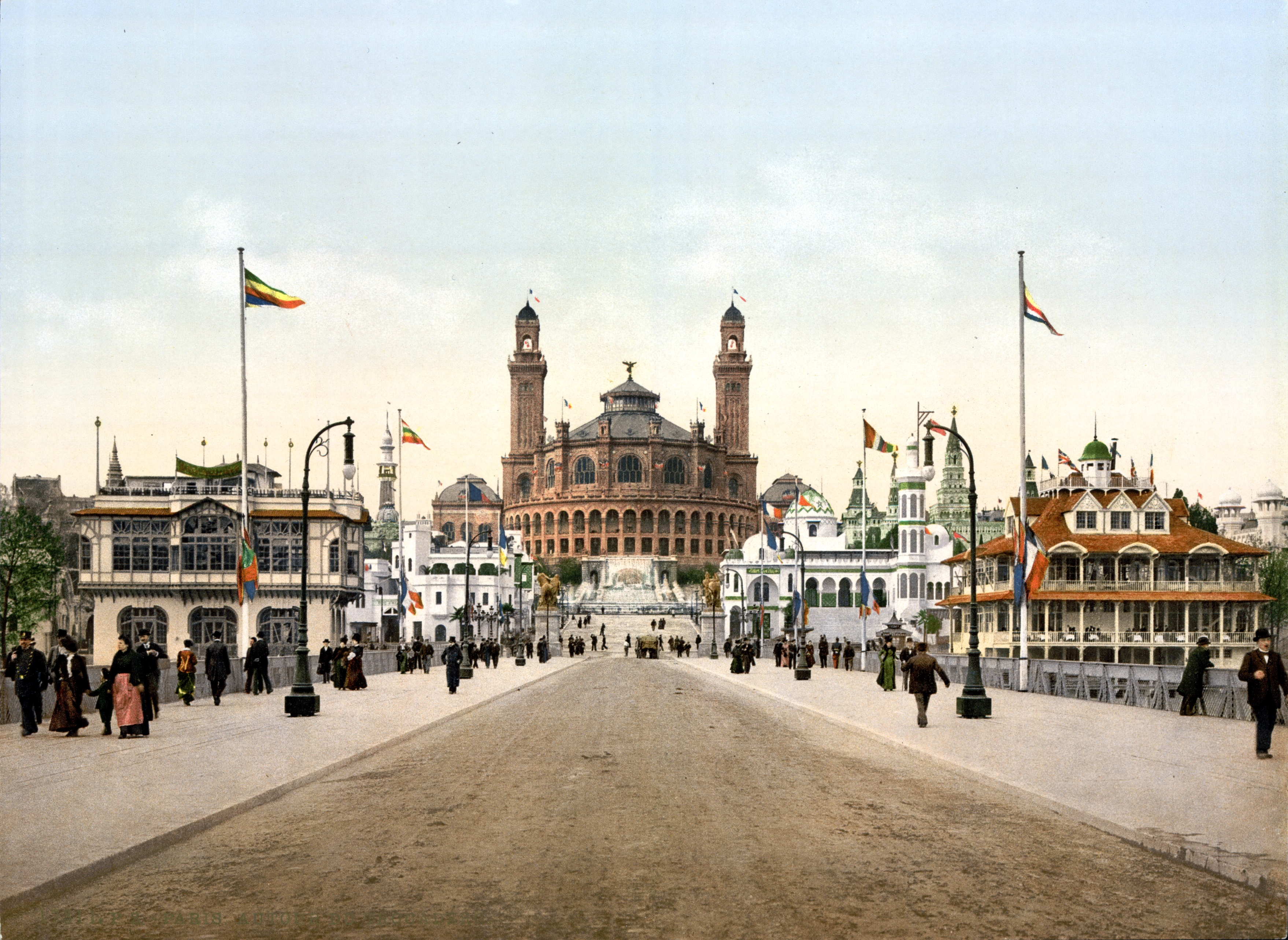 Exposition Universelle, 1900, Paris, France.